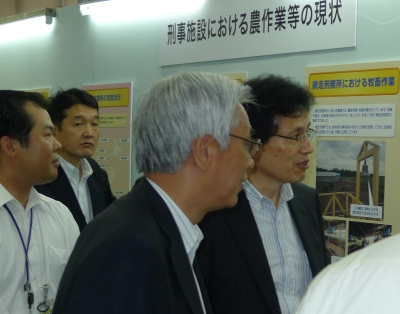 Toshio Ogawa, Senior Vice-Minister of Justice, inspected the National Exhibition of the Prison Industry at the Science Museum, Tokyo in Chiyoda Ward, Tōkyō Metropolis on June 3, 2011. (For terms of use, see 法務省：法務省ウェブサイトのコンテンツの利用について.)